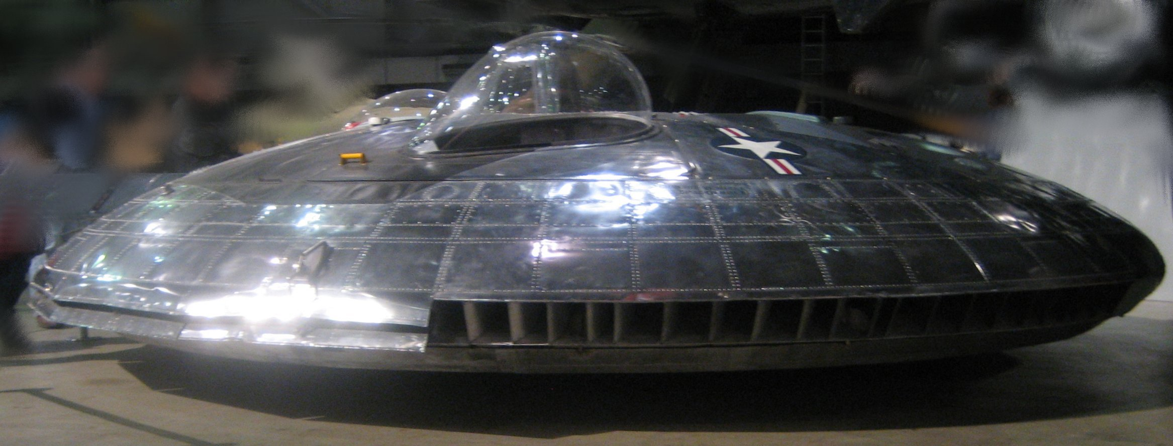 Avrocar, National Museum of the United States Air Force